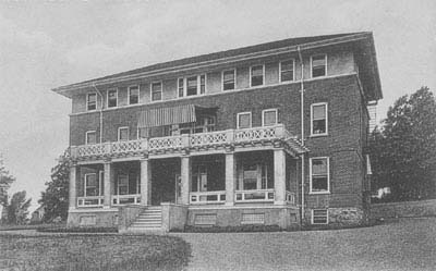 Overlook Hospital in 1906, in Summit, New Jersey, USA. From the website: Dr. William Henry Lawrence, Jr. founded Overlook in 1906 at the age of 26. In 1905, Dr. Lawrence bought the Faitoute property on the highest point in Summit, overlooking the Baltusrol Valley and only ten minutes away from the train station. He borrowed $15,000 from three local civic leaders to build the hospital. On October 1, 1906, the three-story building, boasting an operating room, X-ray facilities, and a hydraulic elevator, officially opened. There were 1,000 visitors on the first day. The hospital had two wards with 15 beds each, and 12 private rooms. The final cost was $30,000— twice the original estimate.